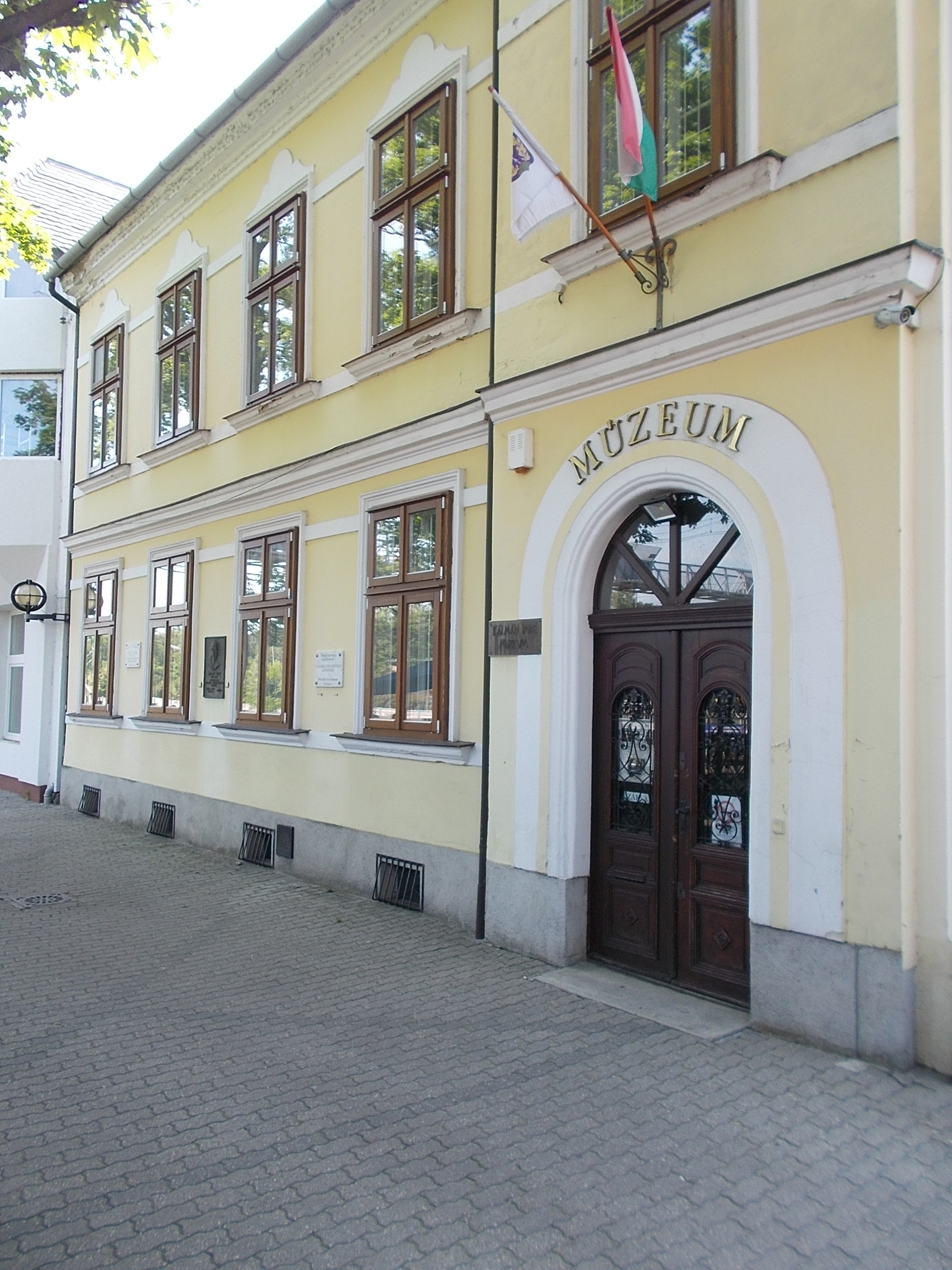 Emmerich Kalman Memorial Home or Museum to Emmerich Kalman. - 5 Kálmán Imre sétány, Siófok, Somogy County, Hungary.